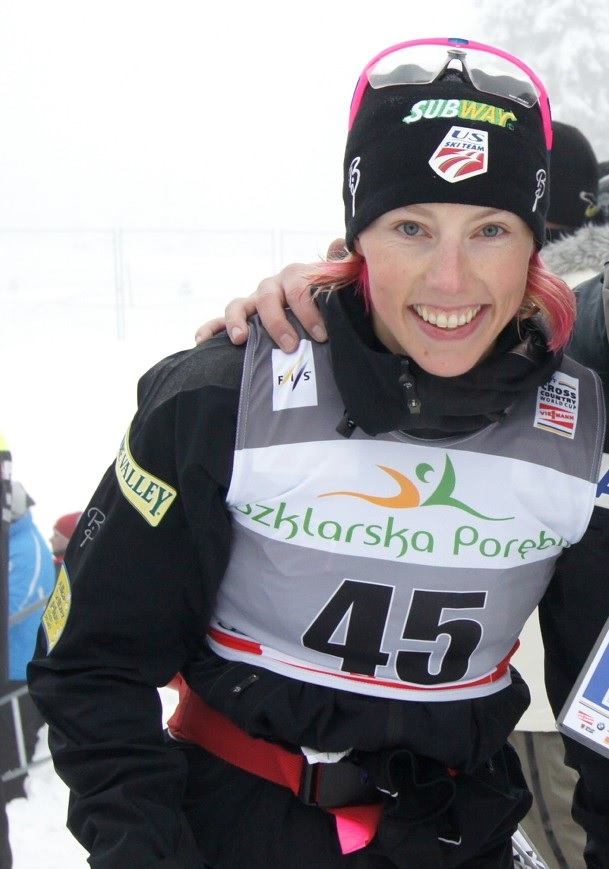 American cross-country skier Kikkan Randall at a World Cup race in Poland.